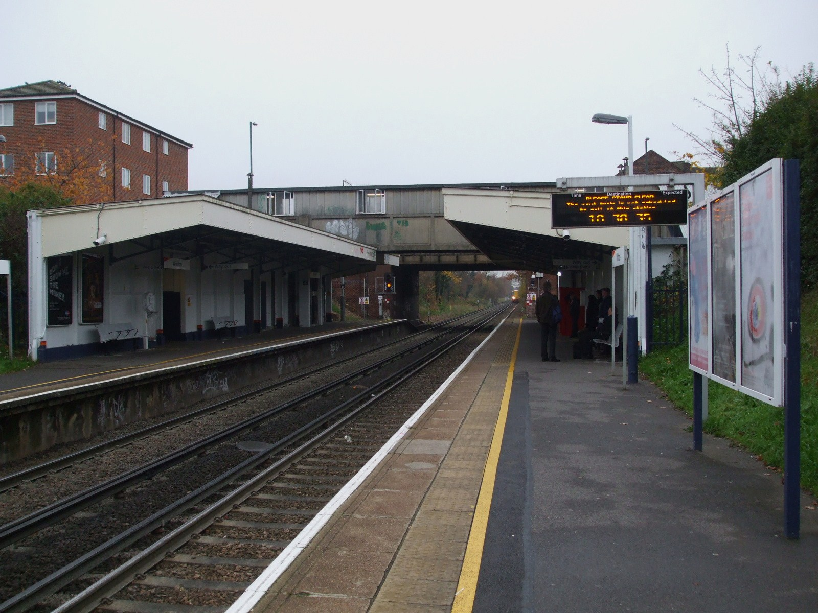 Whitton station looking west